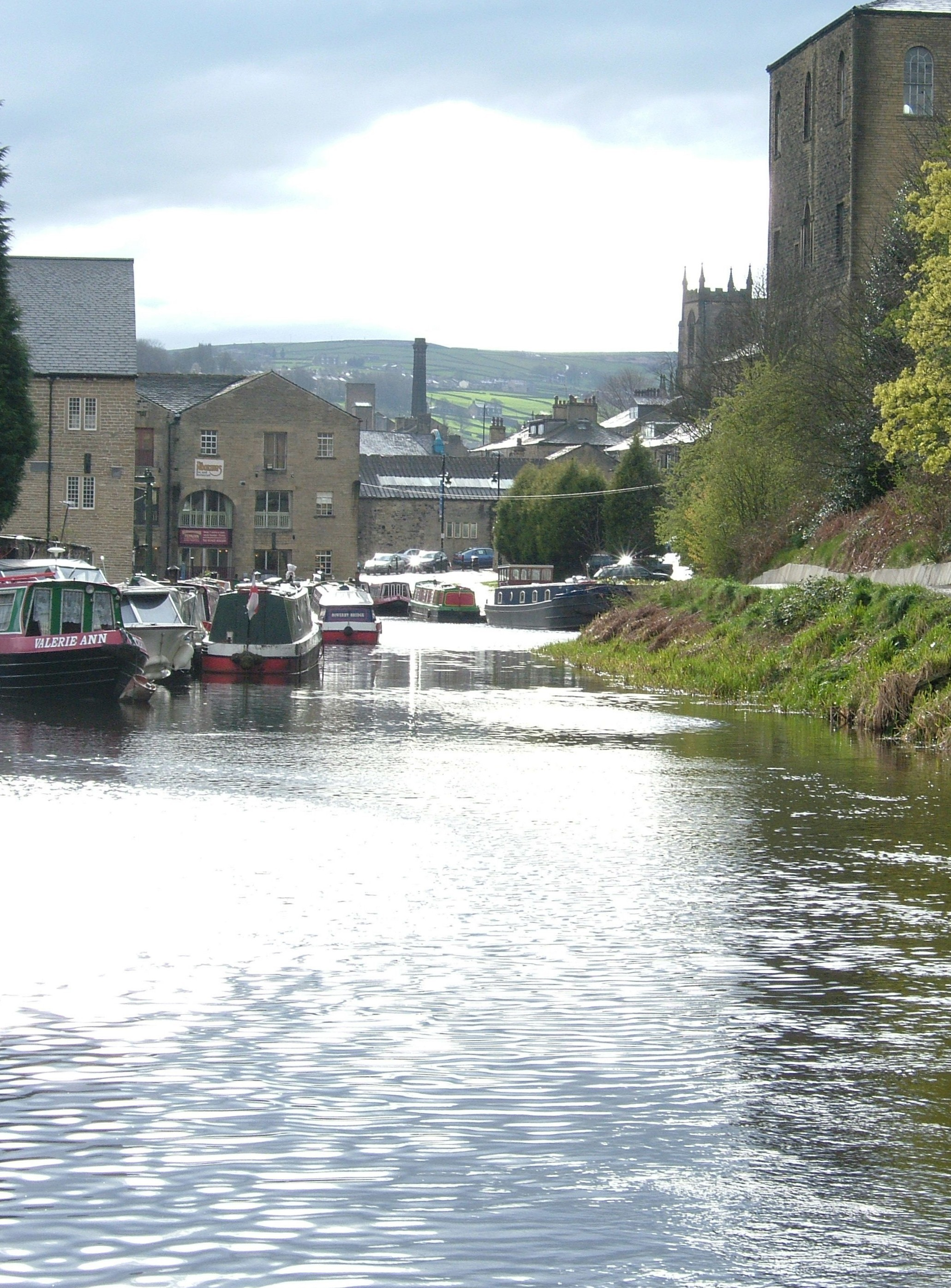 Canal as it joins the rochdale Photo taken by my mother. Photo she has released the photo under the GFDL.